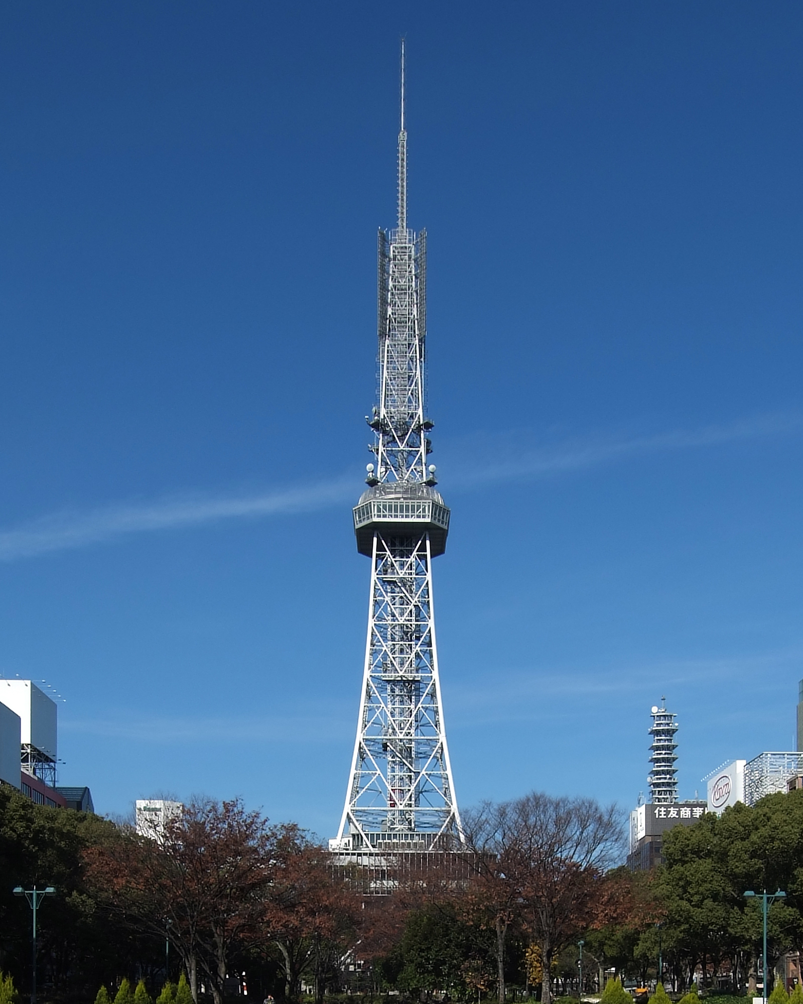 Nagoya TV Tower, Naka-ku, Nagoya, Aichi, Japan